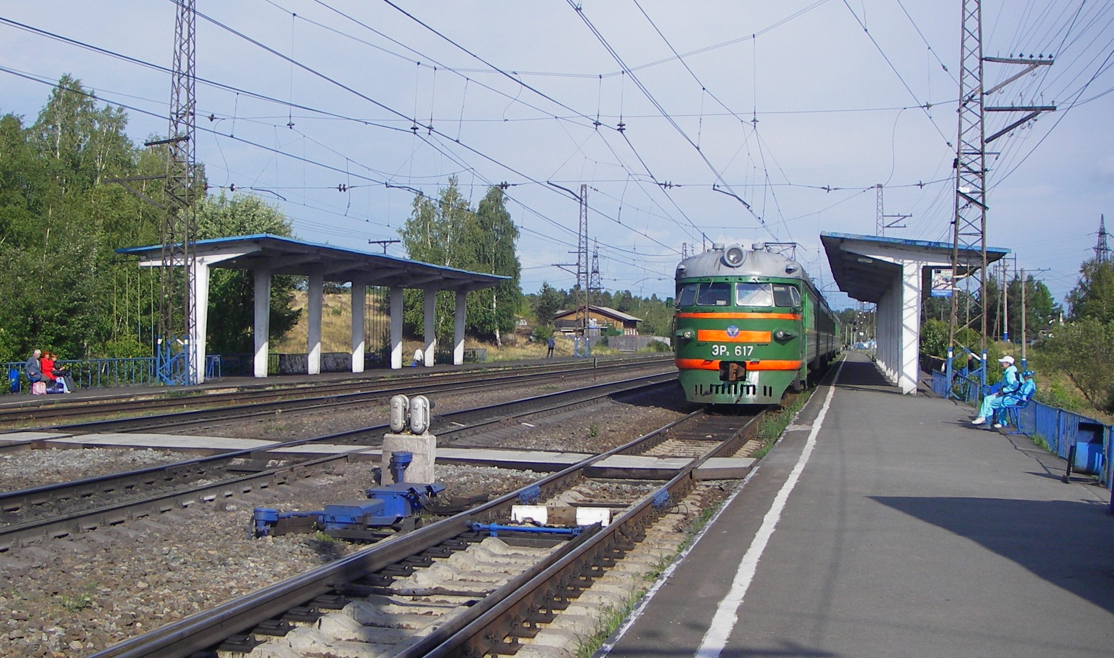 Kisegach railway station in Chelyabinsk region, Russia